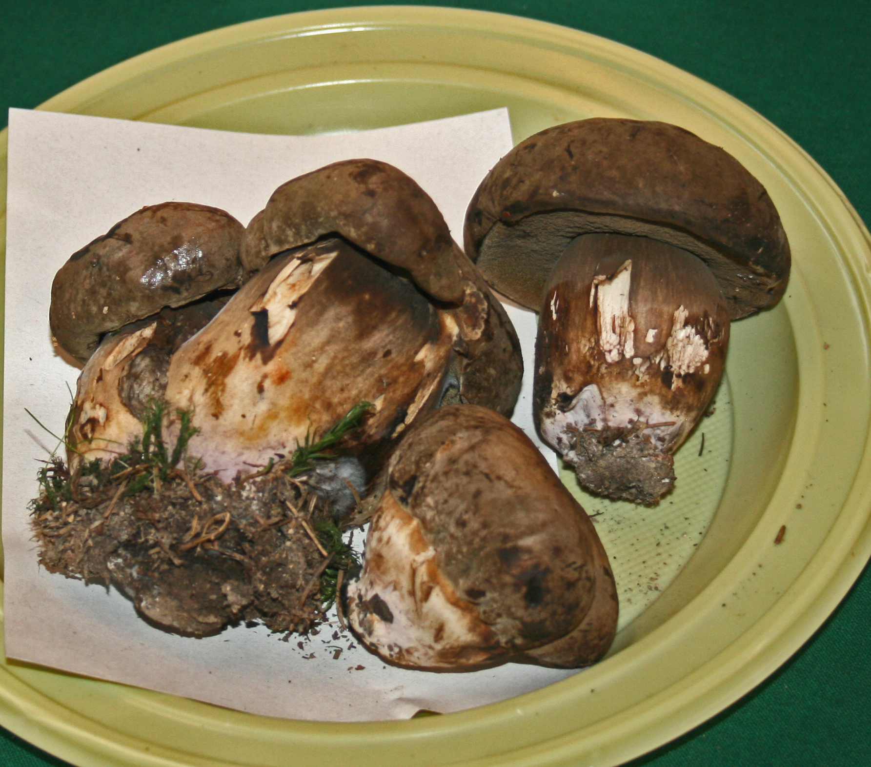 Porphyrellus porphyrosporus at the 12-th countrywide mushroom exhibition 2008, Žofín, Prague, Czech Republic